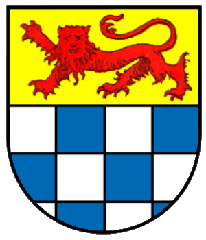 Coat of arms of Öhningen